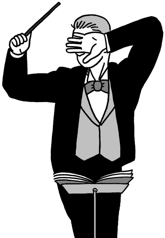 Caricature. A conductor conducts protecting themselves face